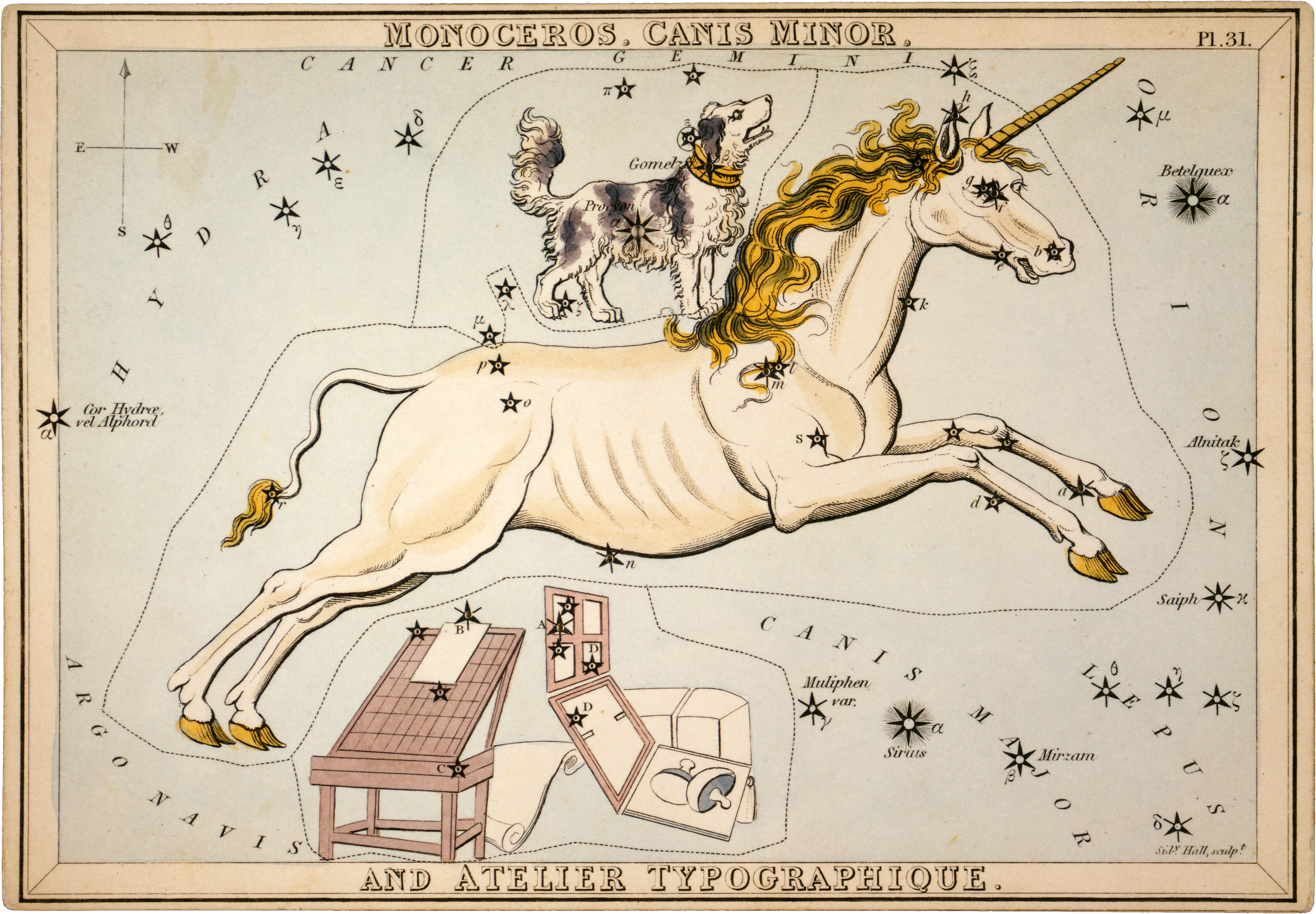 Sidney Hall, Urania’s Mirror, plate 31: Monoceros, Canis Minor, and Atelier Typographique, 1825.